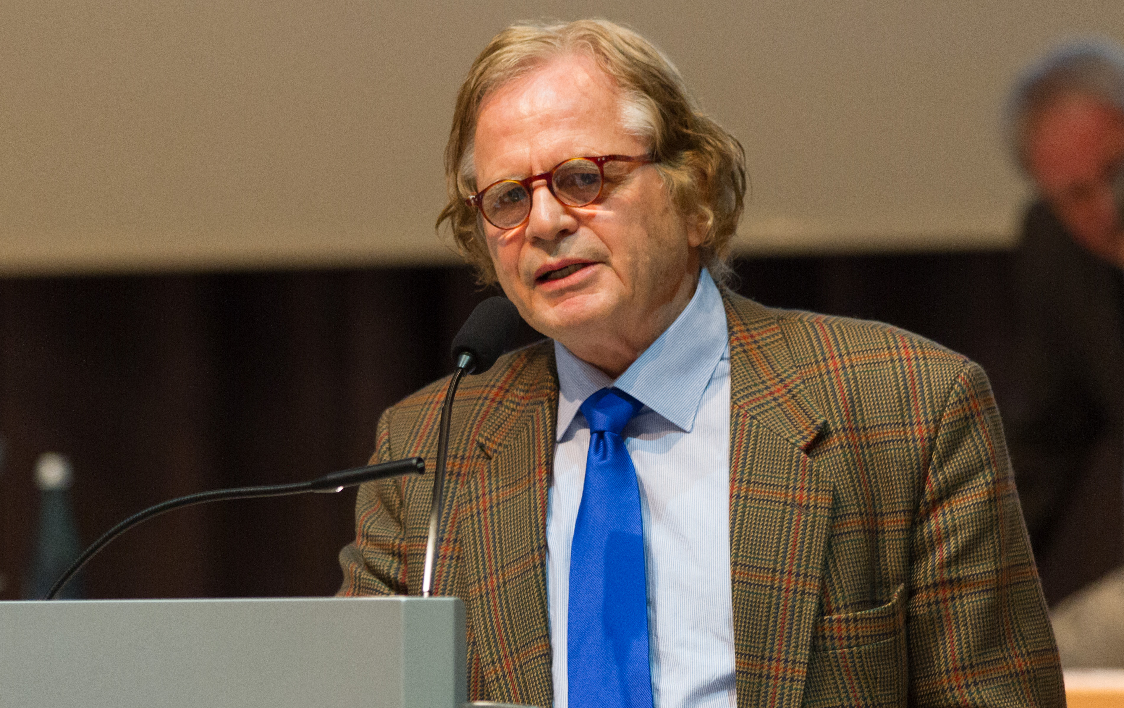 Series: 6th party convention of the AfD Baden-Württemberg in Karlsruhe-Neureuth on January 17th and 18th, 2015. Image: Jens Zeller